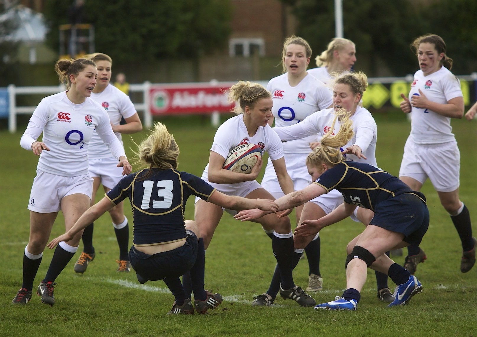 Kay Wilson with the ball, Emma Croker with the black eye